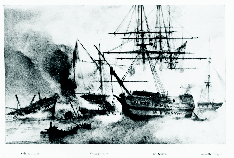 British ship Genoa between three turkish ships